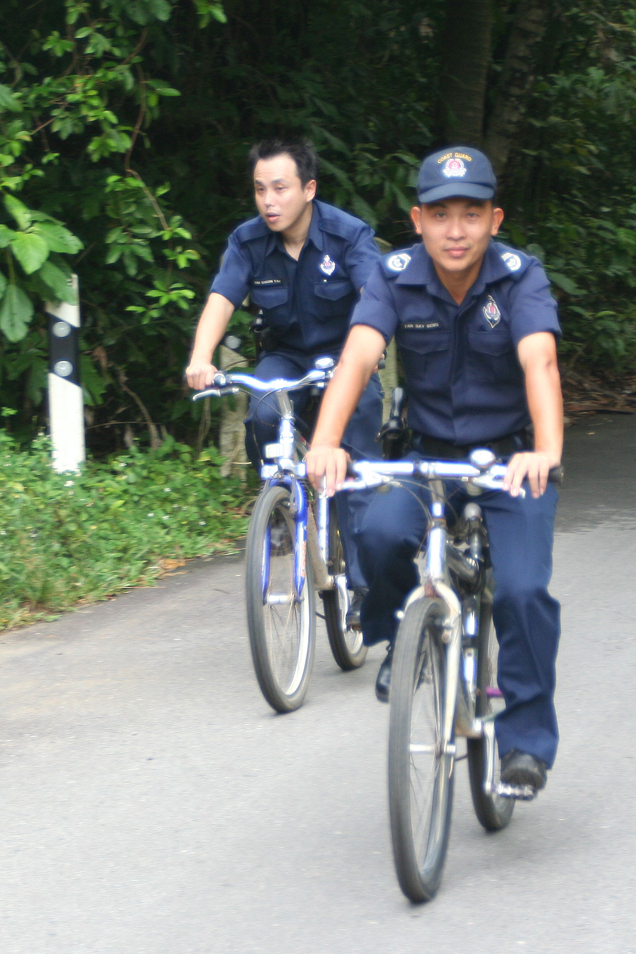 Description: Police Coast Guard officers on bicycle patrol along Jalan Endut Senin. Source: Self-made Location: Pulau Ubin, Singapore Date: 17/12/2005 12:15 Photographer/Painter: Huaiwei